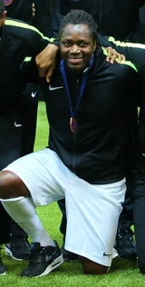 Ibrahim Ba